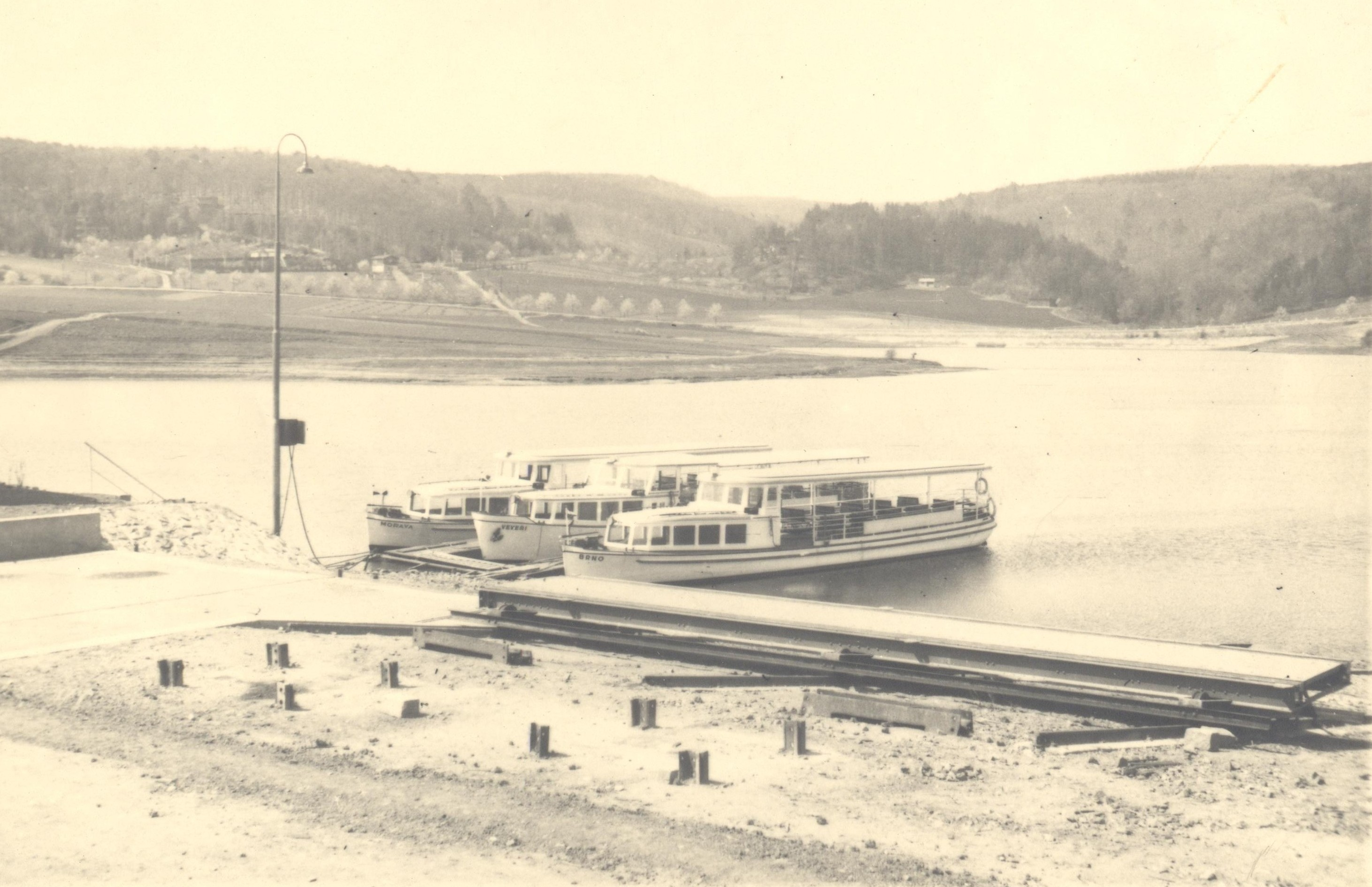 Ships (from left to right) Morava, Veveří and Brno, Brno Reservoir, Czech Republic